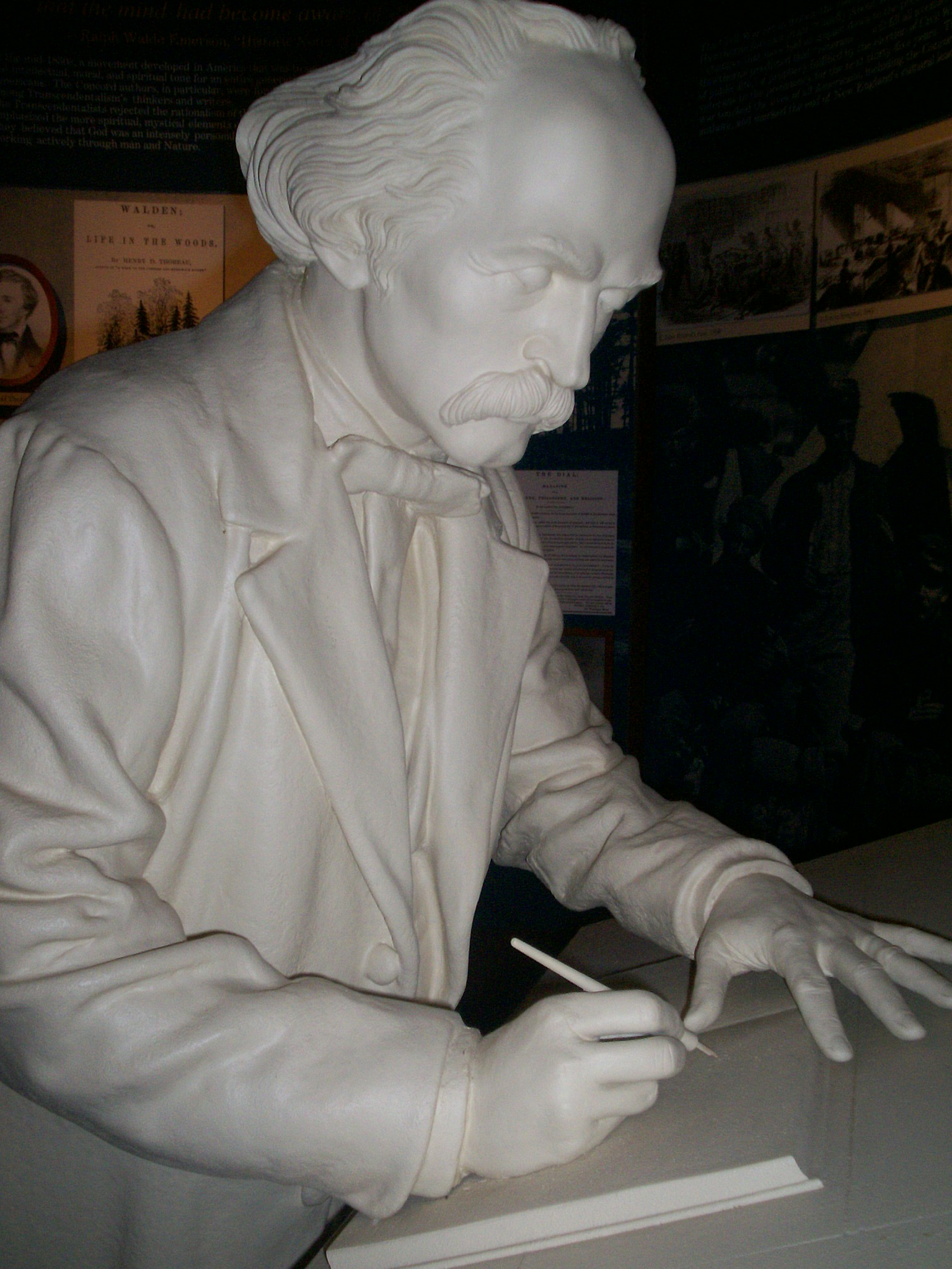 Life-size statue of Nathaniel Hawthorne at the visitors center of the Wayside, Hawthorne's former home in Concord, Massachusetts. As of 2016, the statue has been moved to the interior of the building and is no longer in the visitors center.